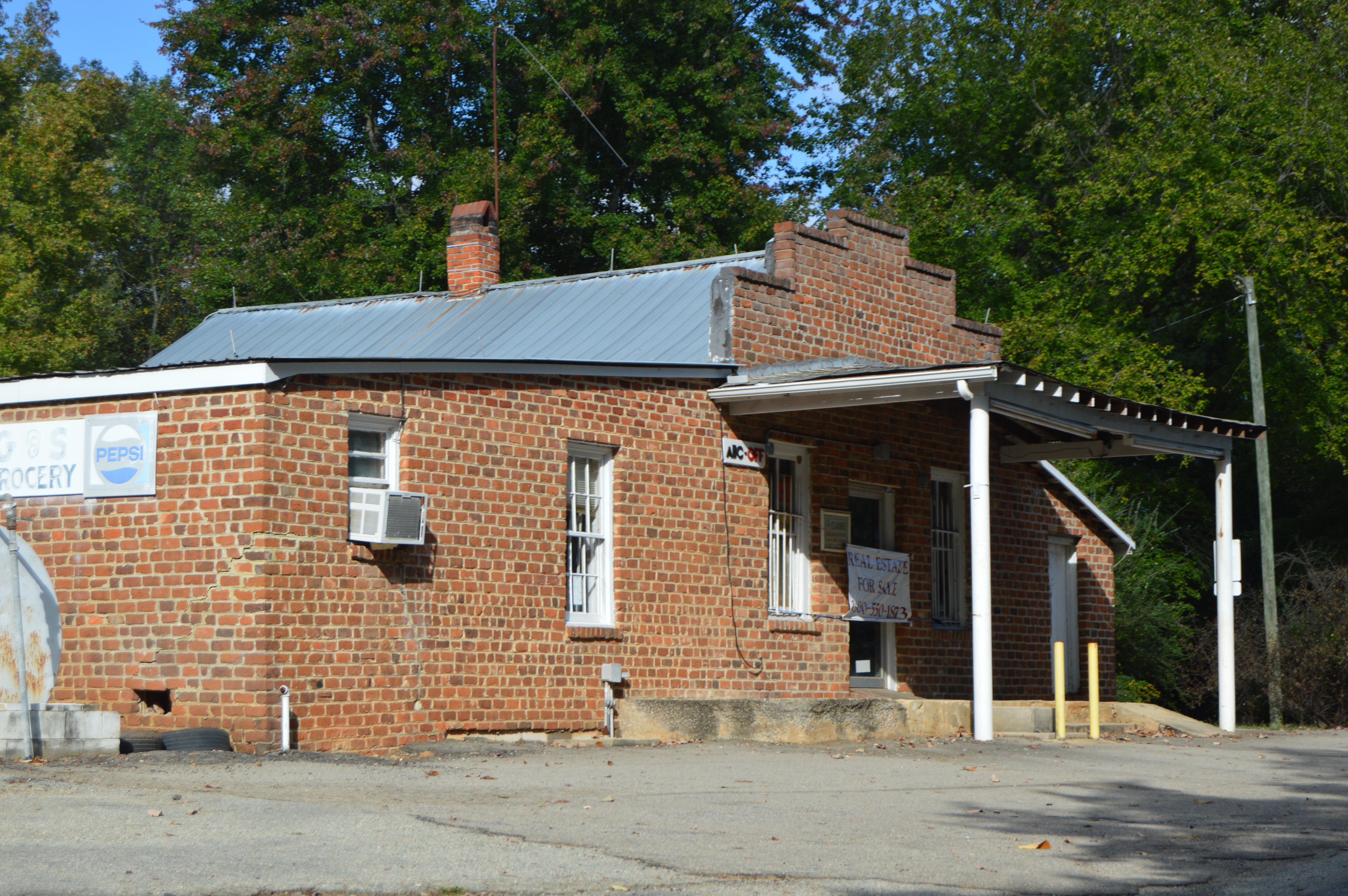 The old Paineville country store (now closed and for sale), located on Genito Road at Paineville in Amelia County, Virginia, United States.